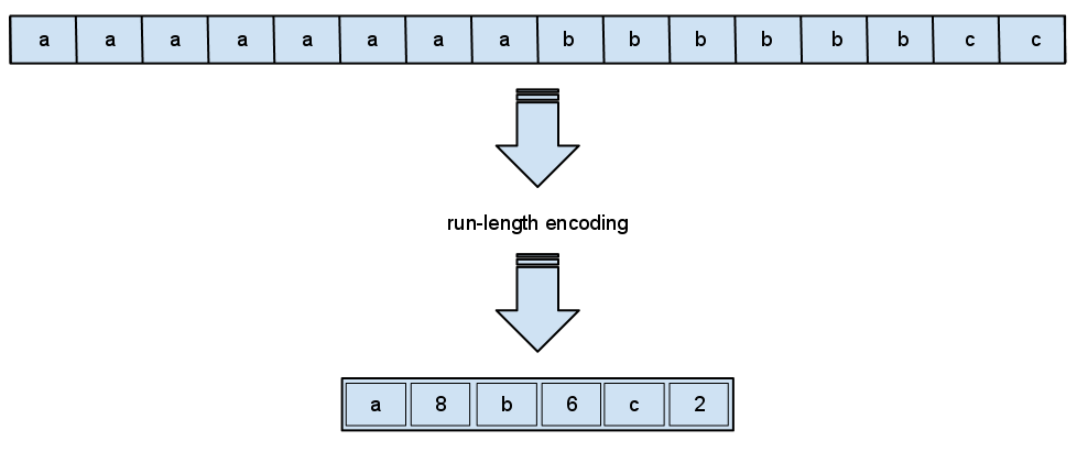 RLE encoding